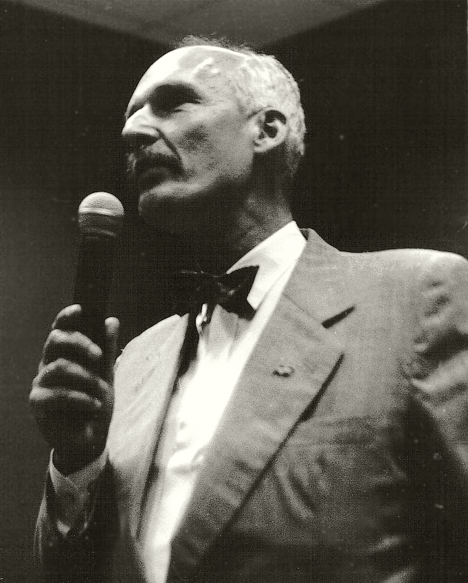 Janusz Korwin-Mikke on his presidental election meeting in Zielona Góra University.